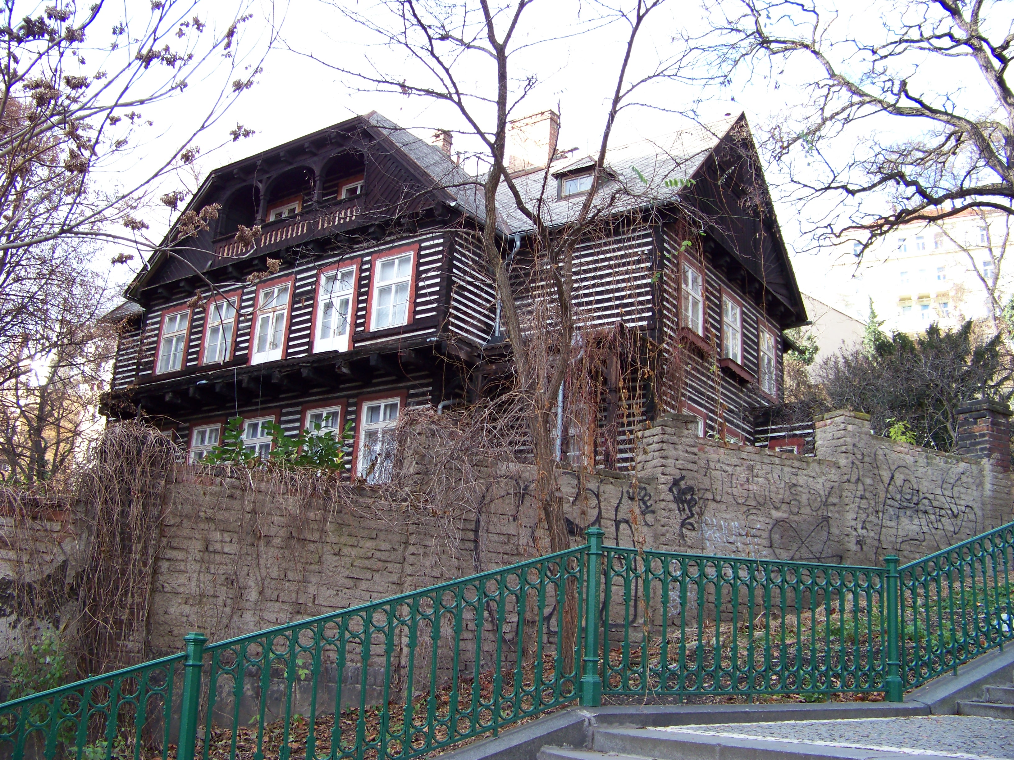 Prague-Vinohrady, the Czech Republic. Pod Nuselskými schody 1746/7.